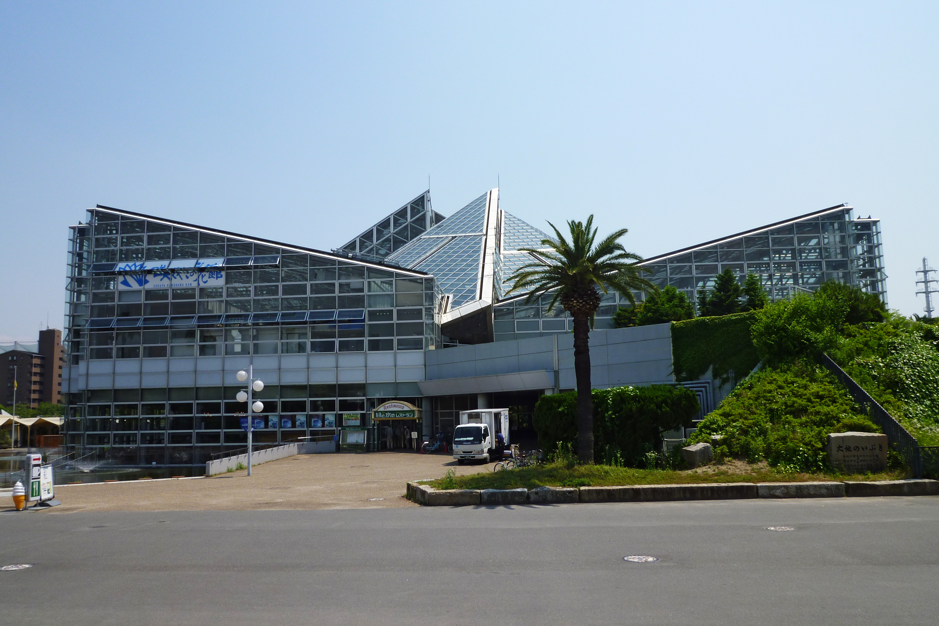 Hanahakukinenkoen Turumiryokuchi, Osaka, Osaka prefecture, Japan.